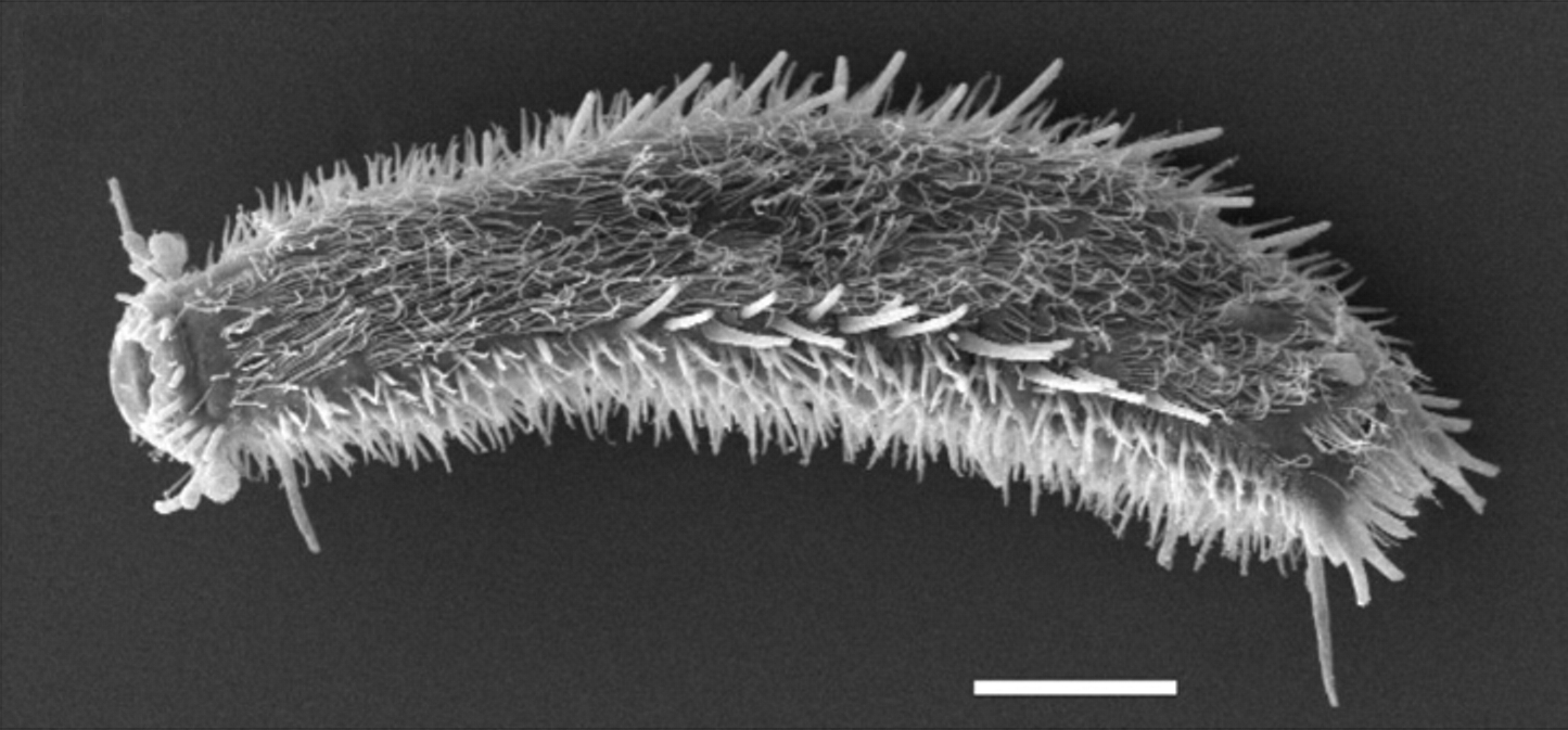 SEM photomicrograph showing the general body shape and aspects of the cuticular covering of Thaumastoderma ramuliferum (Gastrotricha: Macridasyida). Habitus in ventral view. Scale bar: 20 µm.